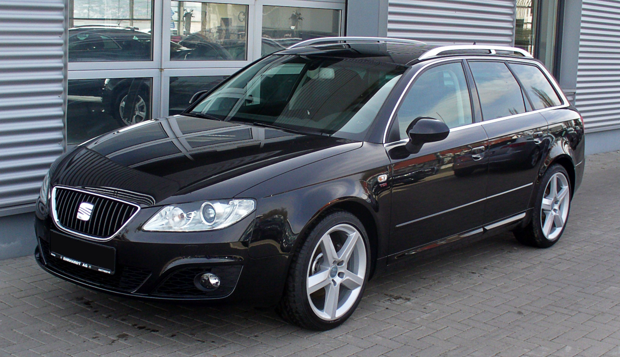 Seat Exeo ST